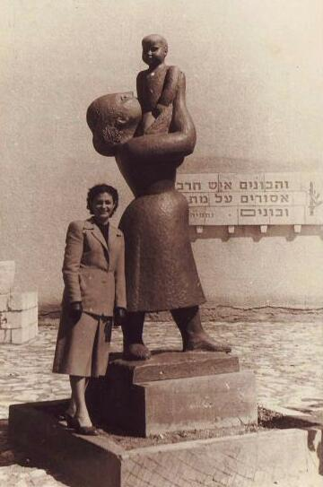 Ein Gev, northern Israel, 1953